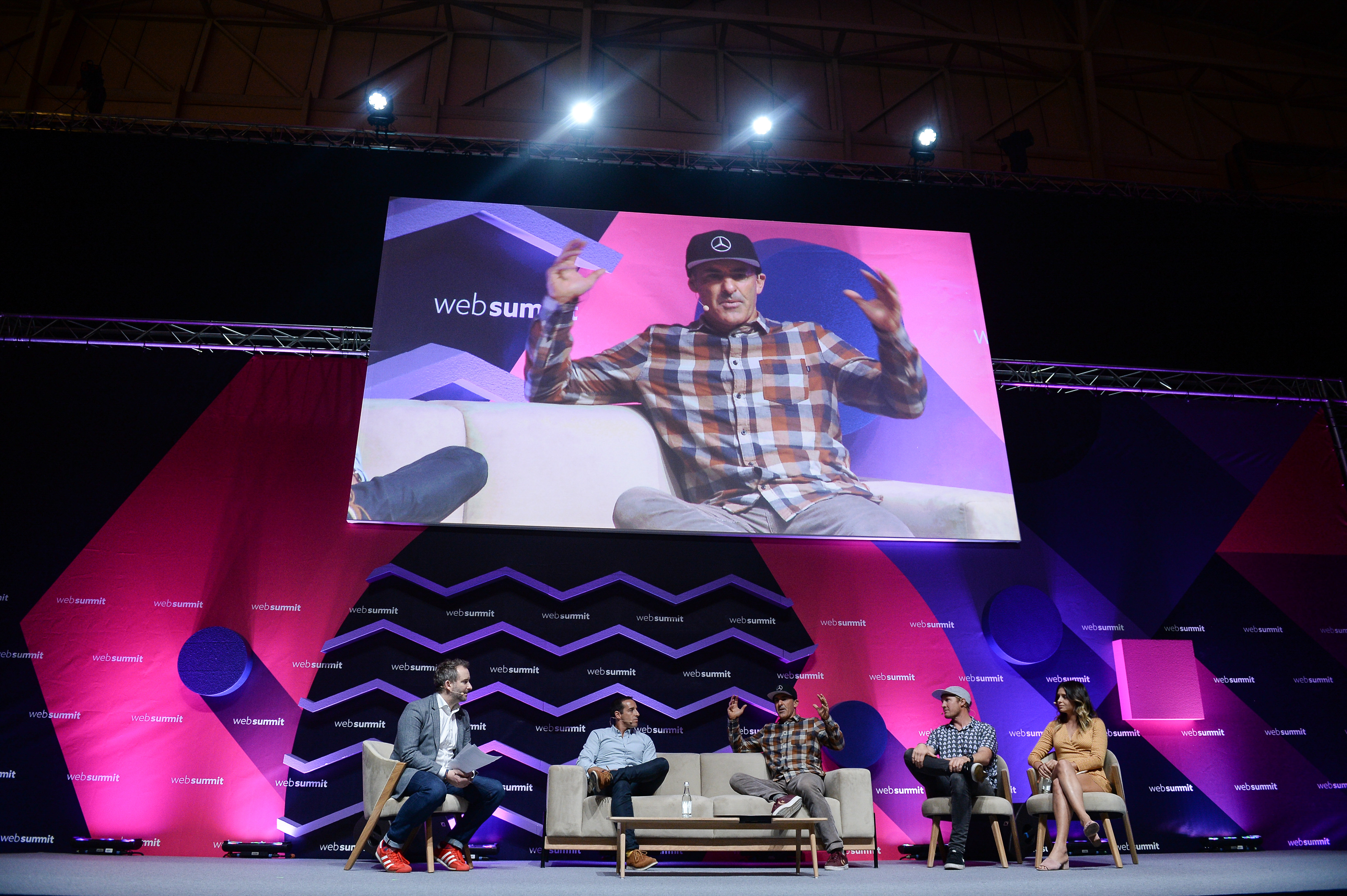 7 November 2017; Pictured from left to right, Ger Gilroy, Managing Editor, , Tiago Pires, Professional Surfer, Red Bull, Garrett McNamara, Big Wave Surfer, Garret McNamara, Andrew Cotton, Big Wave Surfer, Red Bull, and Anastasia Ashley, Pro Surfer, on the SportsTrade Stage during the opening day of Web Summit 2017 at Altice Arena in Lisbon. Photo by Cody Glenn/Web Summit via Sportsfile